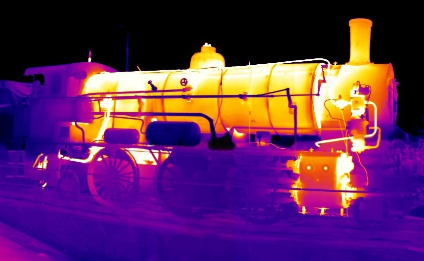 Thermal image of steam locomotive made by IR camera